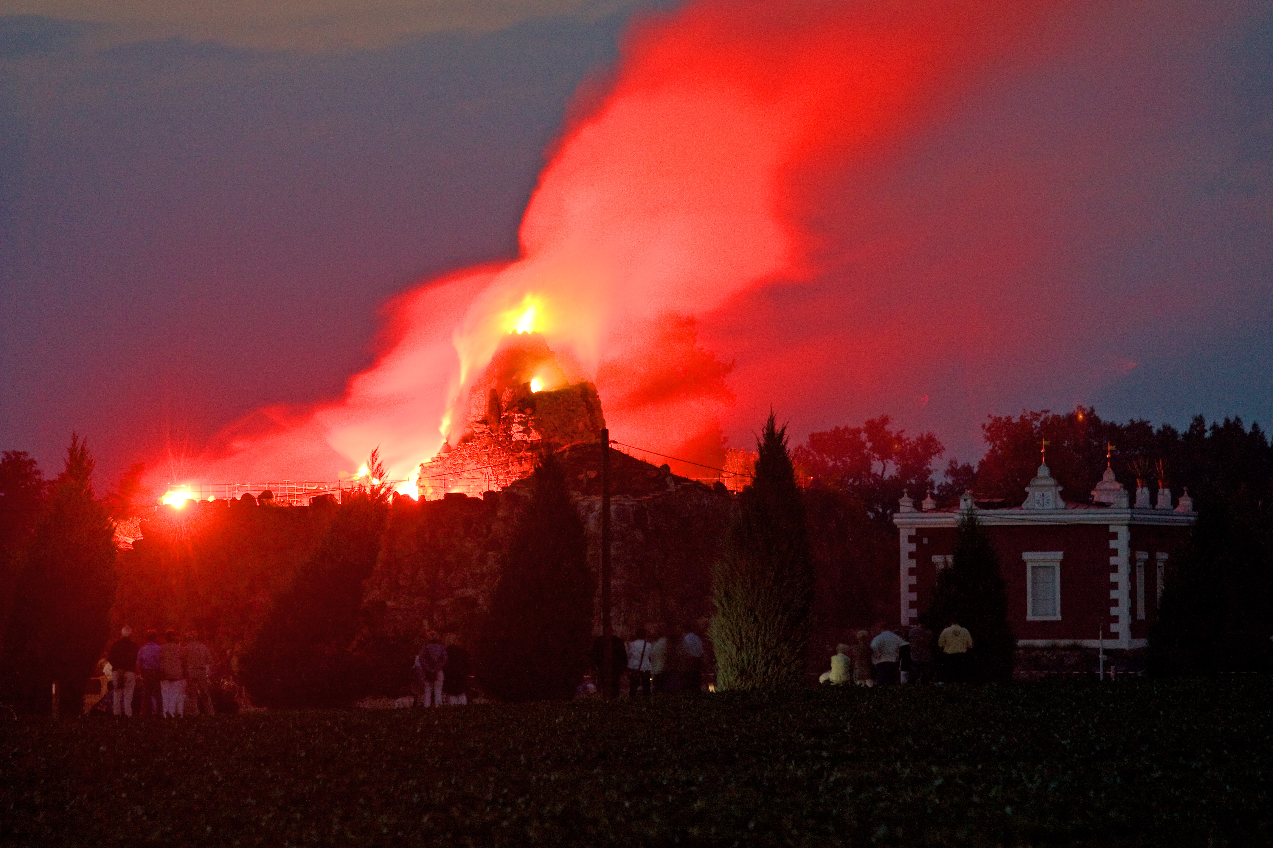 Artificial volcano eruption on the man-made rock island Stein